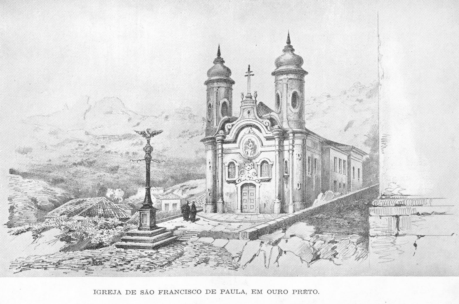 Drawing of the Saint Francis of Assisi church in Ouro Preto, Brazil by hermann Burmeister. The caption erronously states "Igreja de São Francisco de Paula", a different church in Ouro Preto